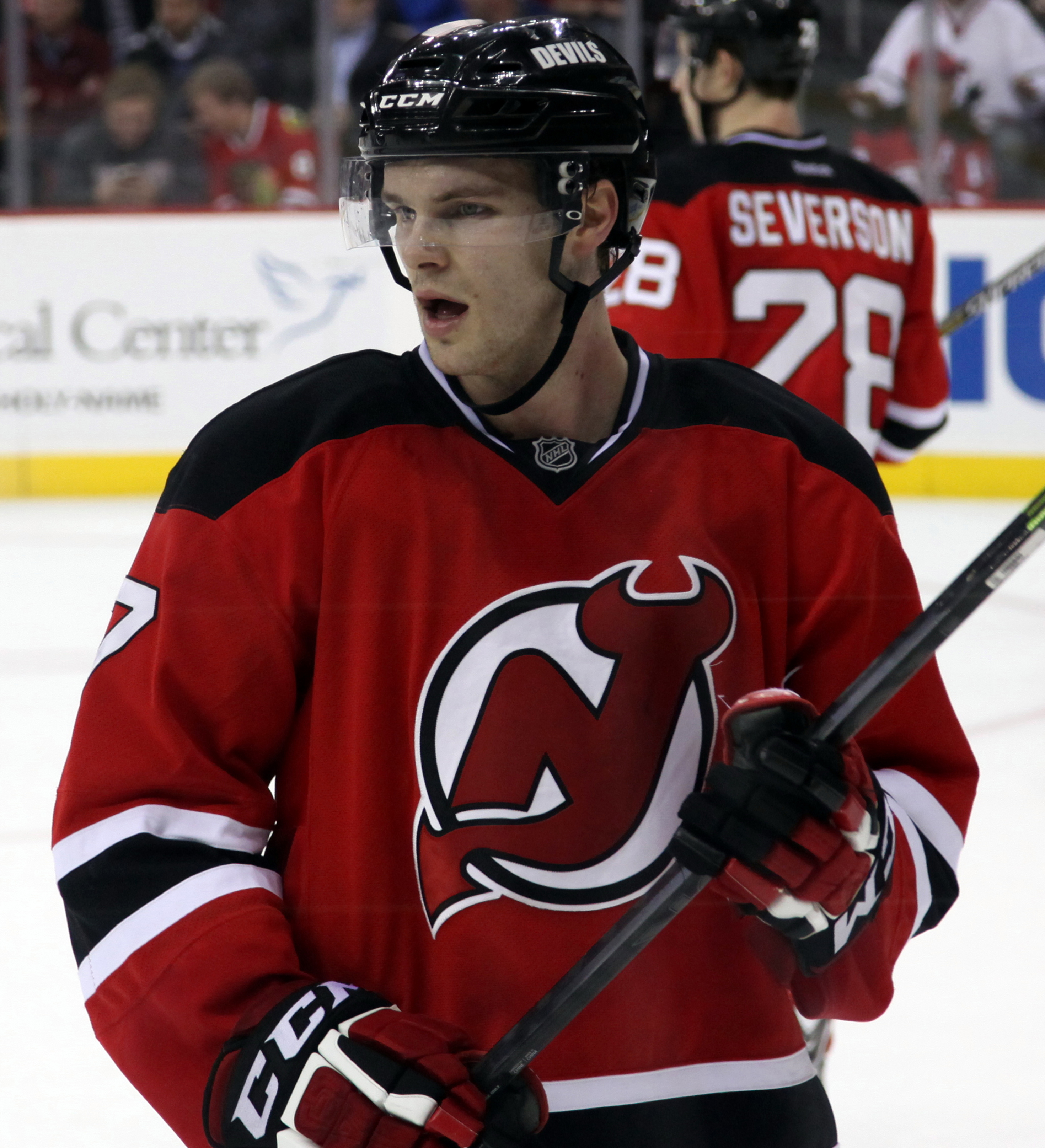 Jon Merrill in December 2014.